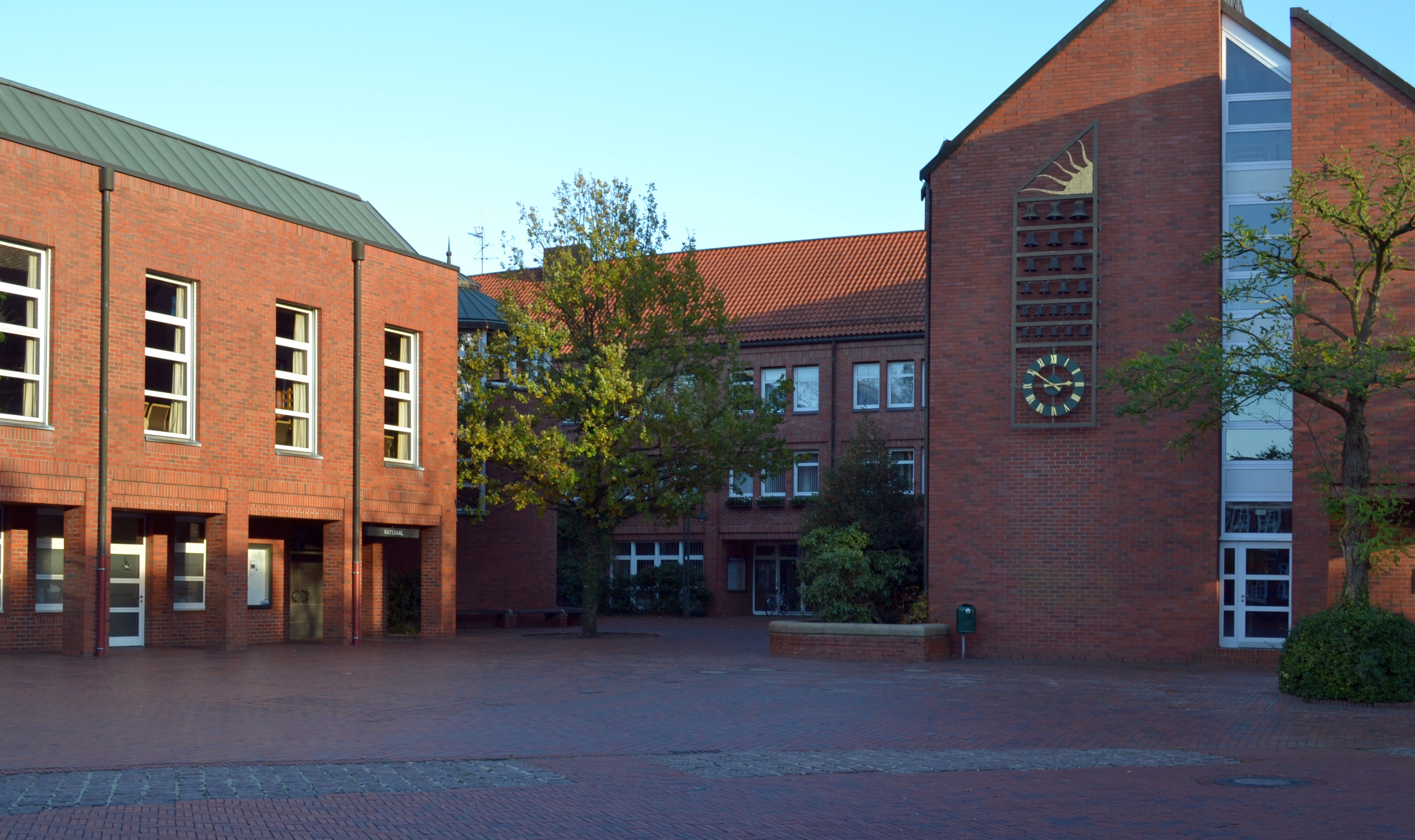 This image shows the townhall of the city Bremervörde. Adress: Rathausmartk 1, 27432 Bremervörde-DE